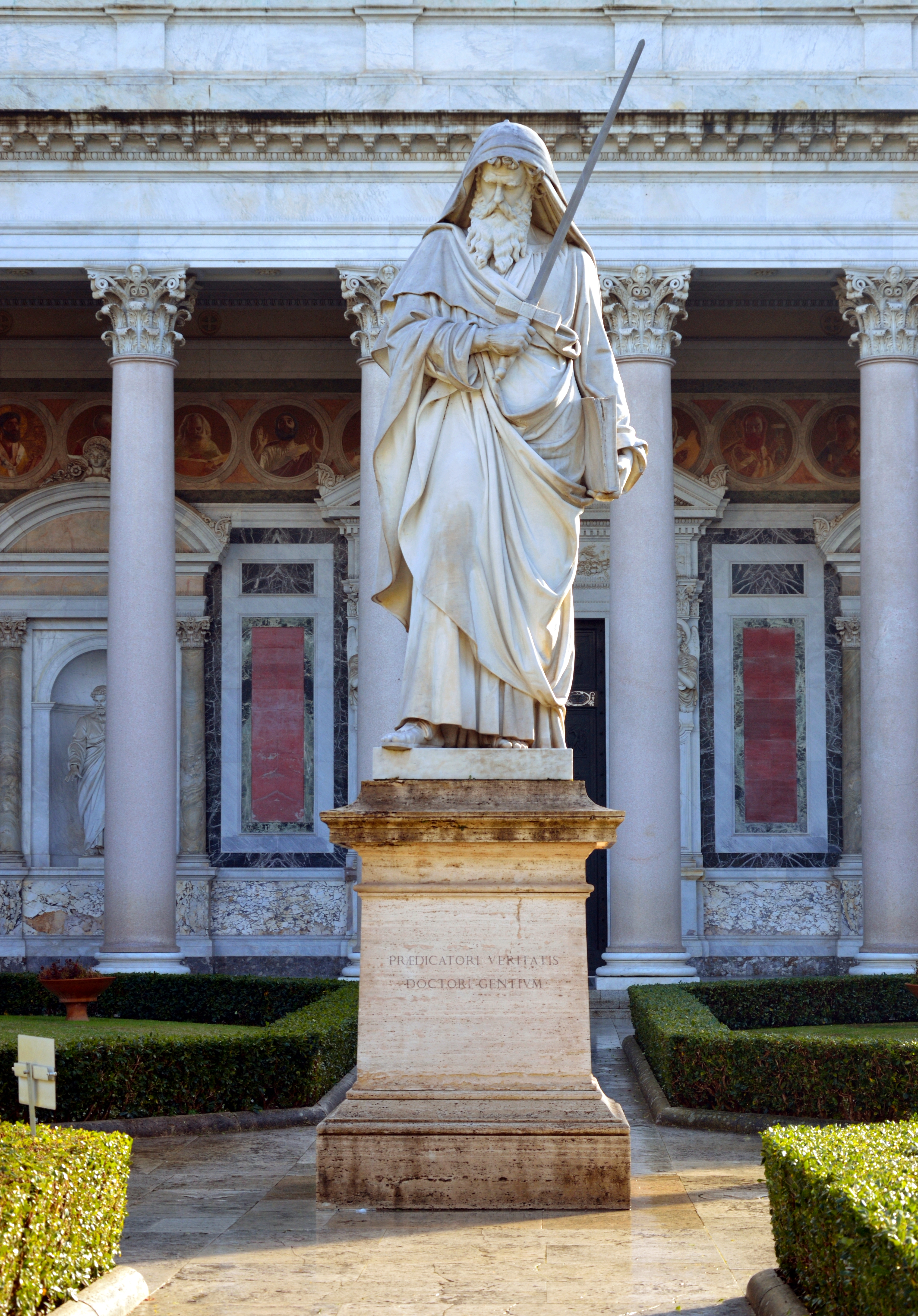 Statue of Saint Paul in Rome